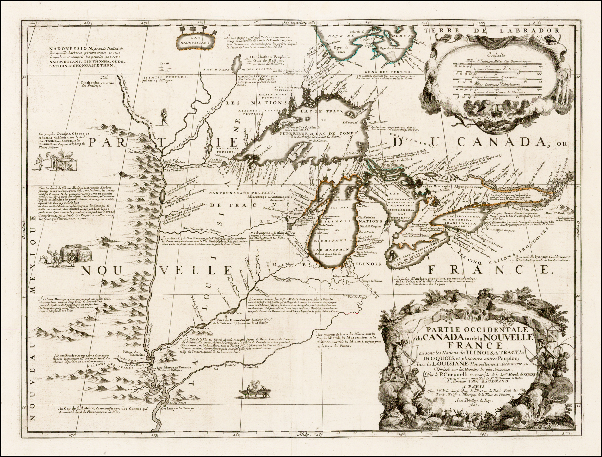 English translation:The Western part of Canada or the New France where the nations of Illinois, of Tracy [Lake Superior], the Iroquois and many other peoples inhabit. With recently discovered Louisiana Drawn according to the newest reports By P. Coronelli, a cosmographer of the Most Serene Republic of Venice Corrected and augmented by Sir Tillemon. And dedicated to Monsieur abbot Baudard [Printed by] J.B. Nolin in the Quai de l'Horloge of the Palace across the Pont Neuf under the sign of the Place des Victoires With the privilege of the King